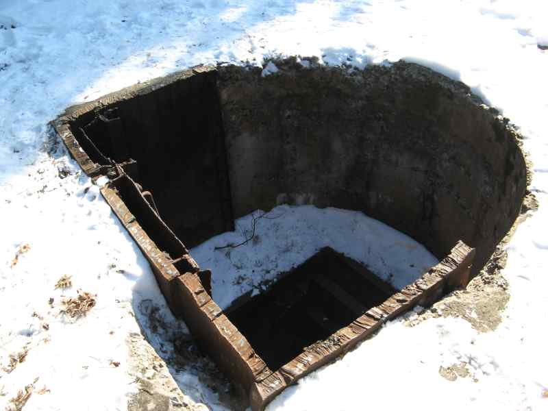 Fort VII Modlin Fortress (Cybulice) remainings of demolished armored observation cupola, March 2011.